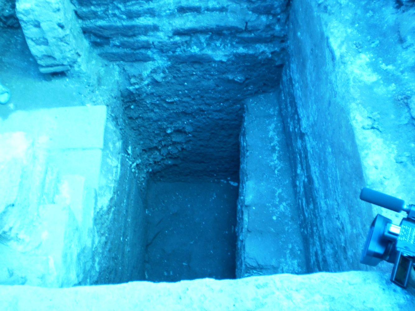 Kottappuram Fort under excavation Muziris Heritage Project